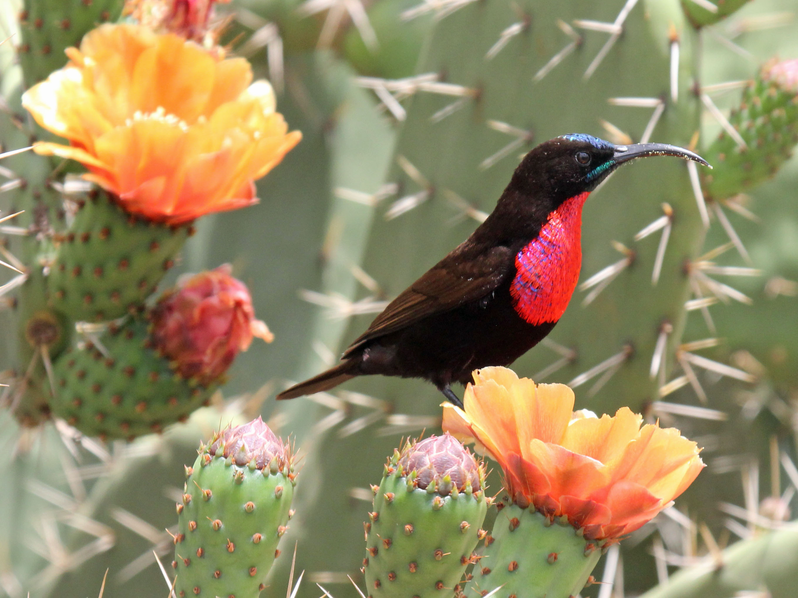 Male Hunter's Sunbird (Chalcomitra hunteri) - Nairobi National Park, Kenya.